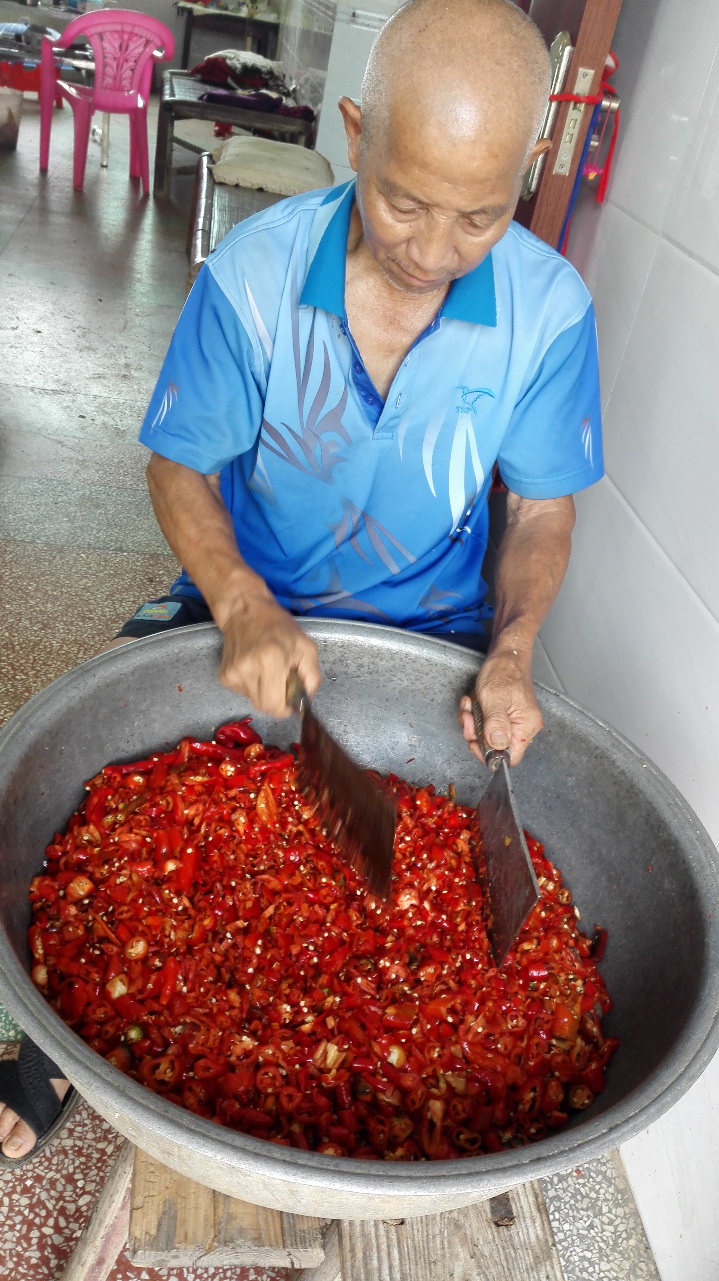 Liqun Gong(a farmer in Yuanxiao Village, Yongfeng) is chopping the pepper